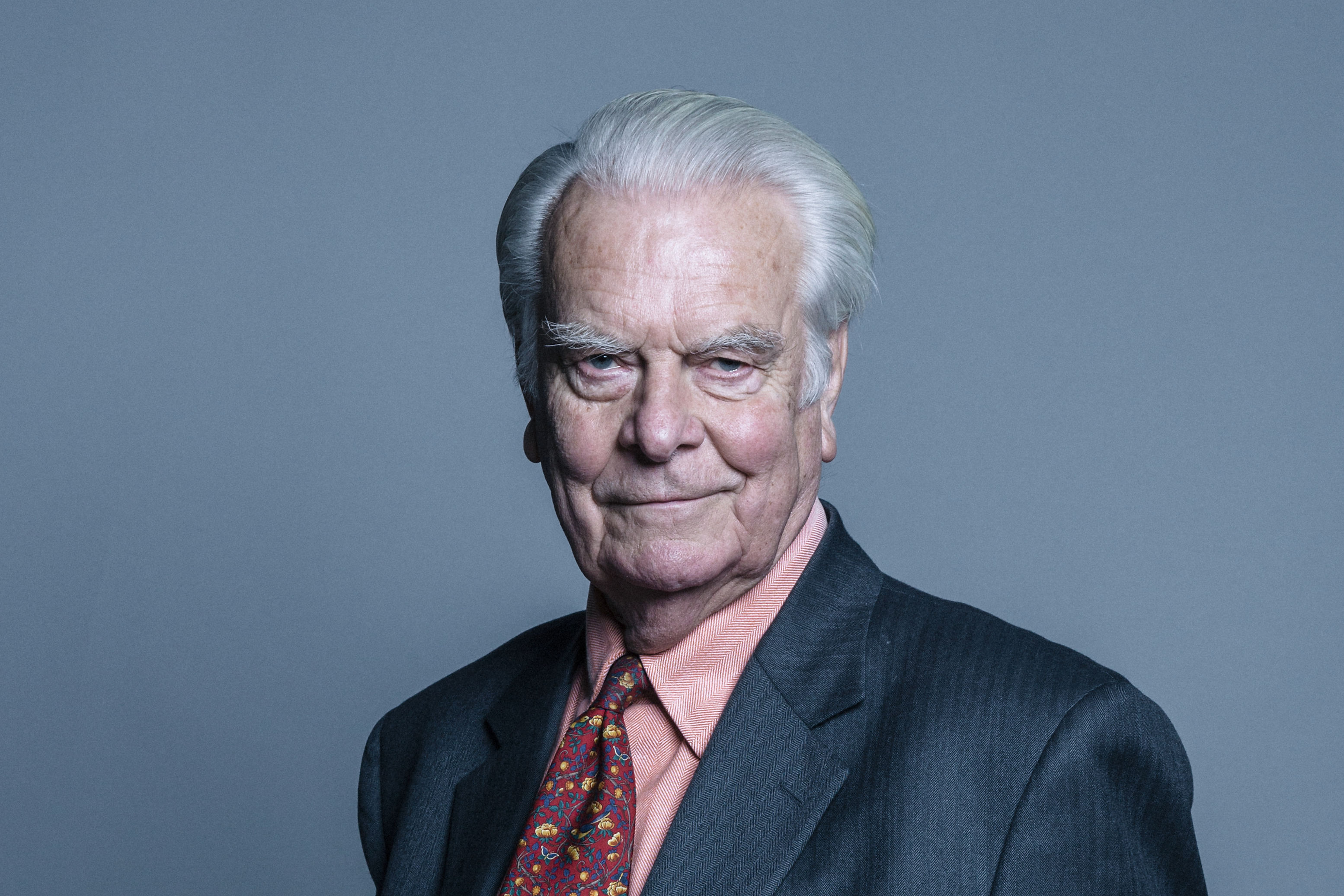 Official portrait of Lord Owen